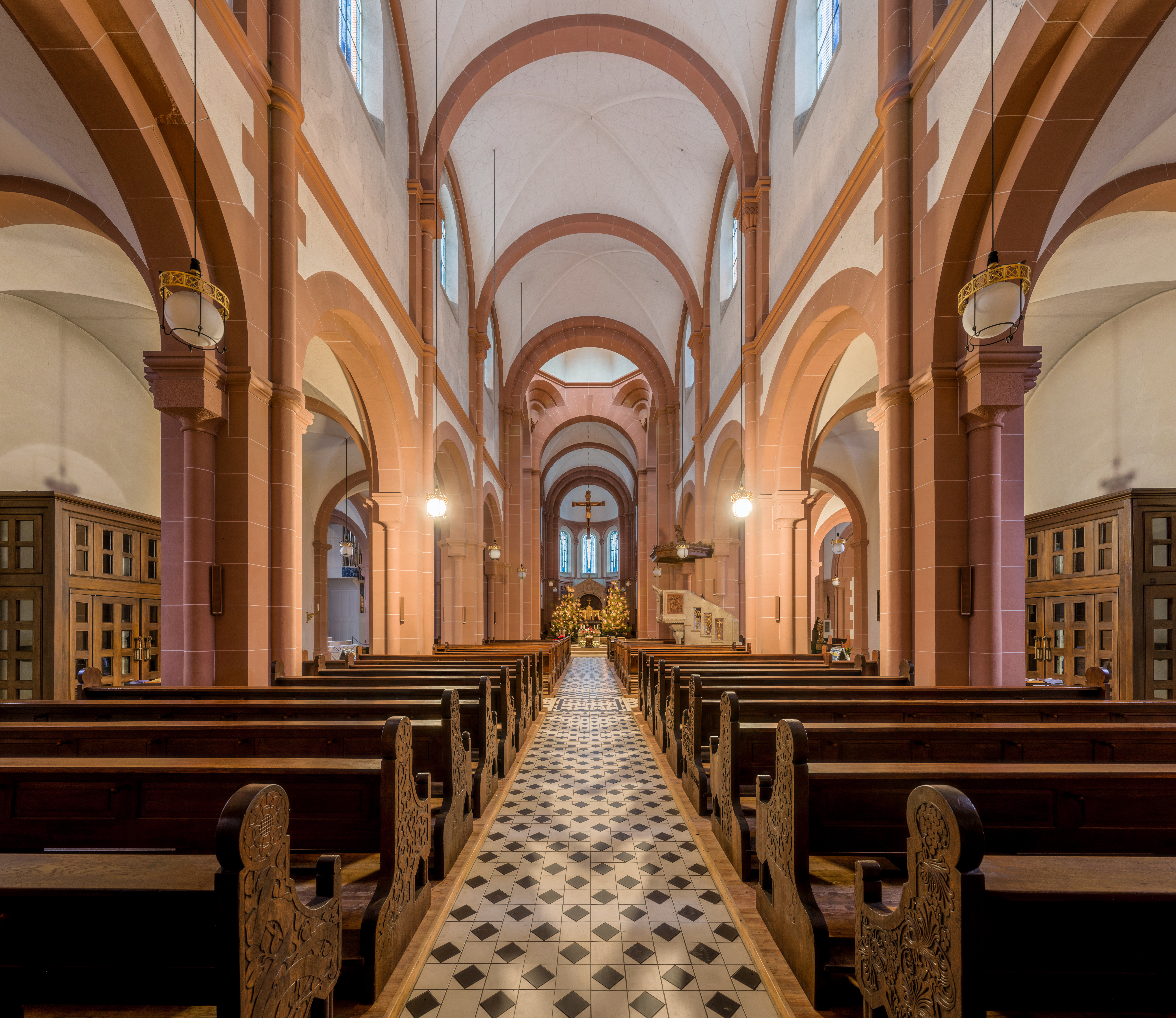 The nave of the Adalberokirche (Würzburg)